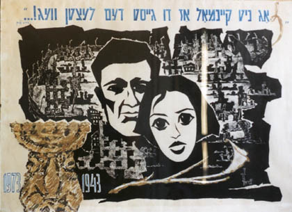 A painting of Mordechai Anielewicz and his girlfriend Mira Fuchrer in the ruined Warsaw ghetto.